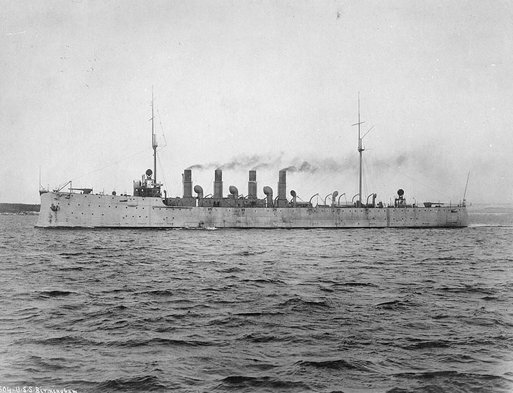 USS Birmingham (CL-2) (Scout Cruiser # 2) underway in 1908, possibly during trials. Original caption: “Photo # NH 56392 USS Birmingham underway, 1908” — removed caption